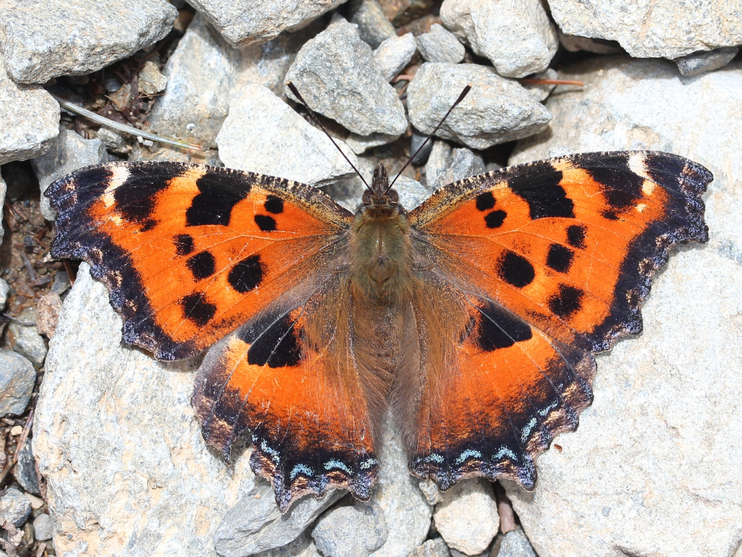 Nymphalis xanthomelas in Mount Ogōchi, Ōshika, Nagano prefecture, Japan.